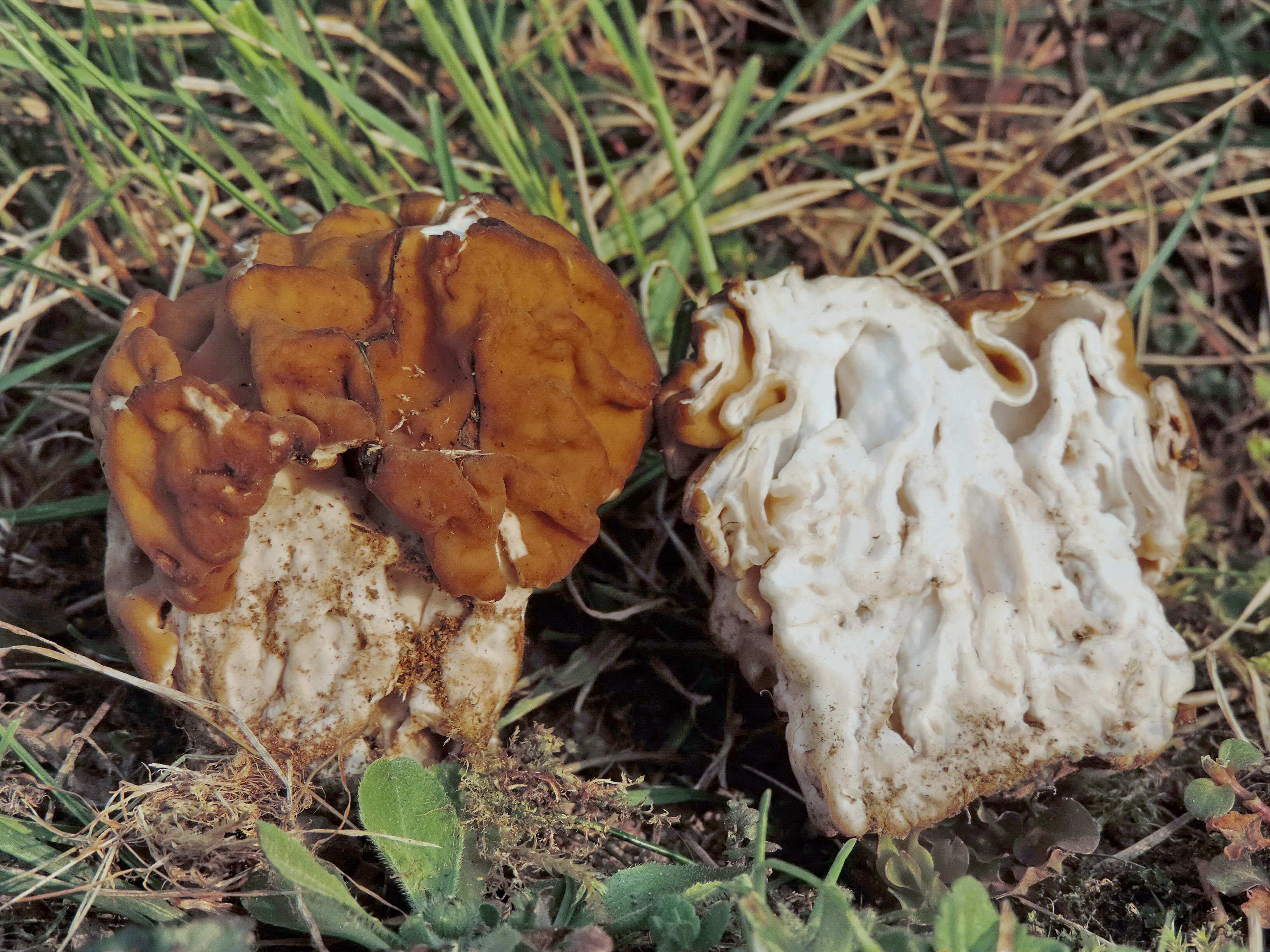 Gyromitra gigas, cross-section, Dolní Posázaví, Sazava river region, Central Bohemia, the Czech republic, Central Europe.